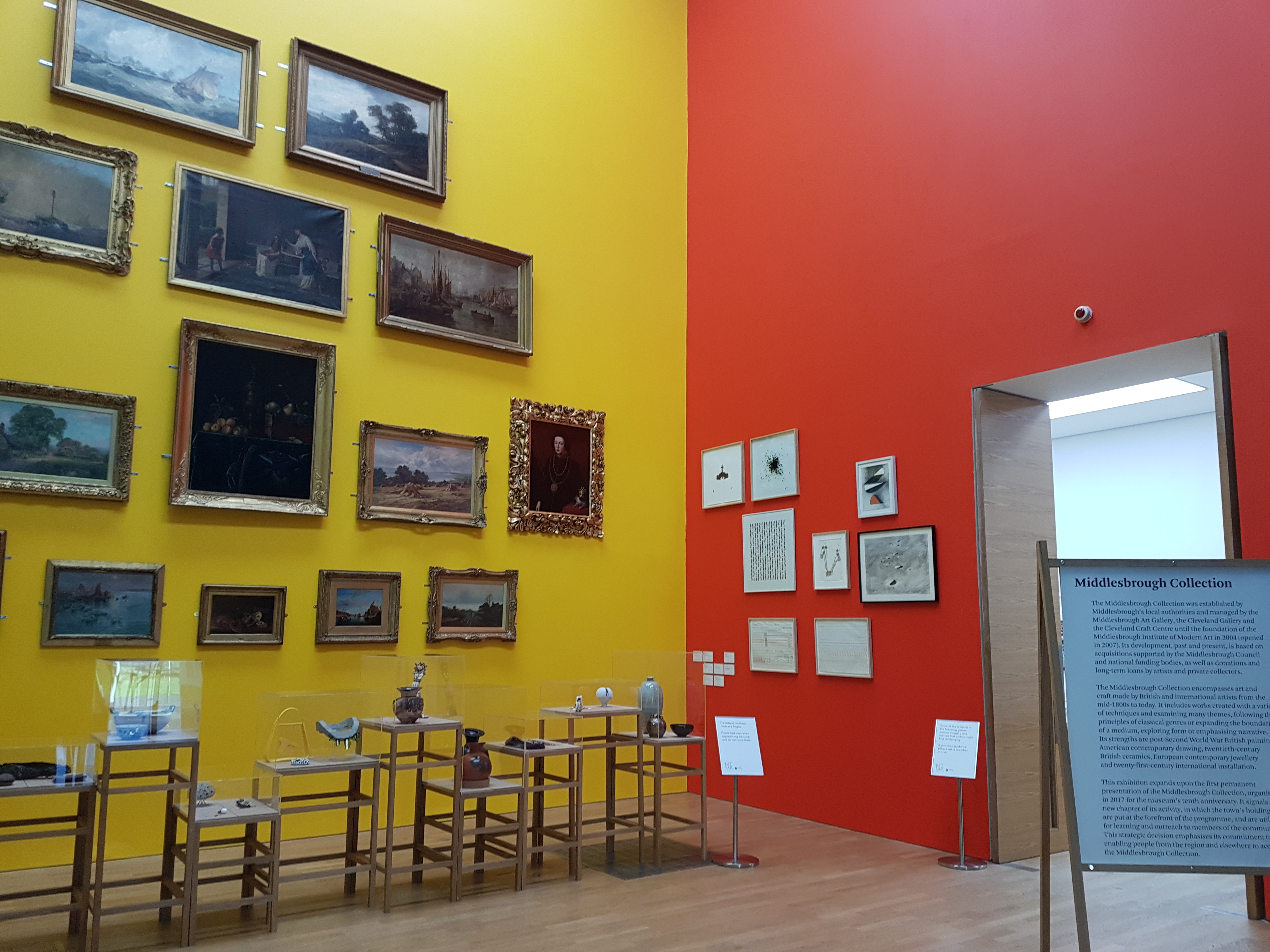 MIMA art gallery, Middlesbrough